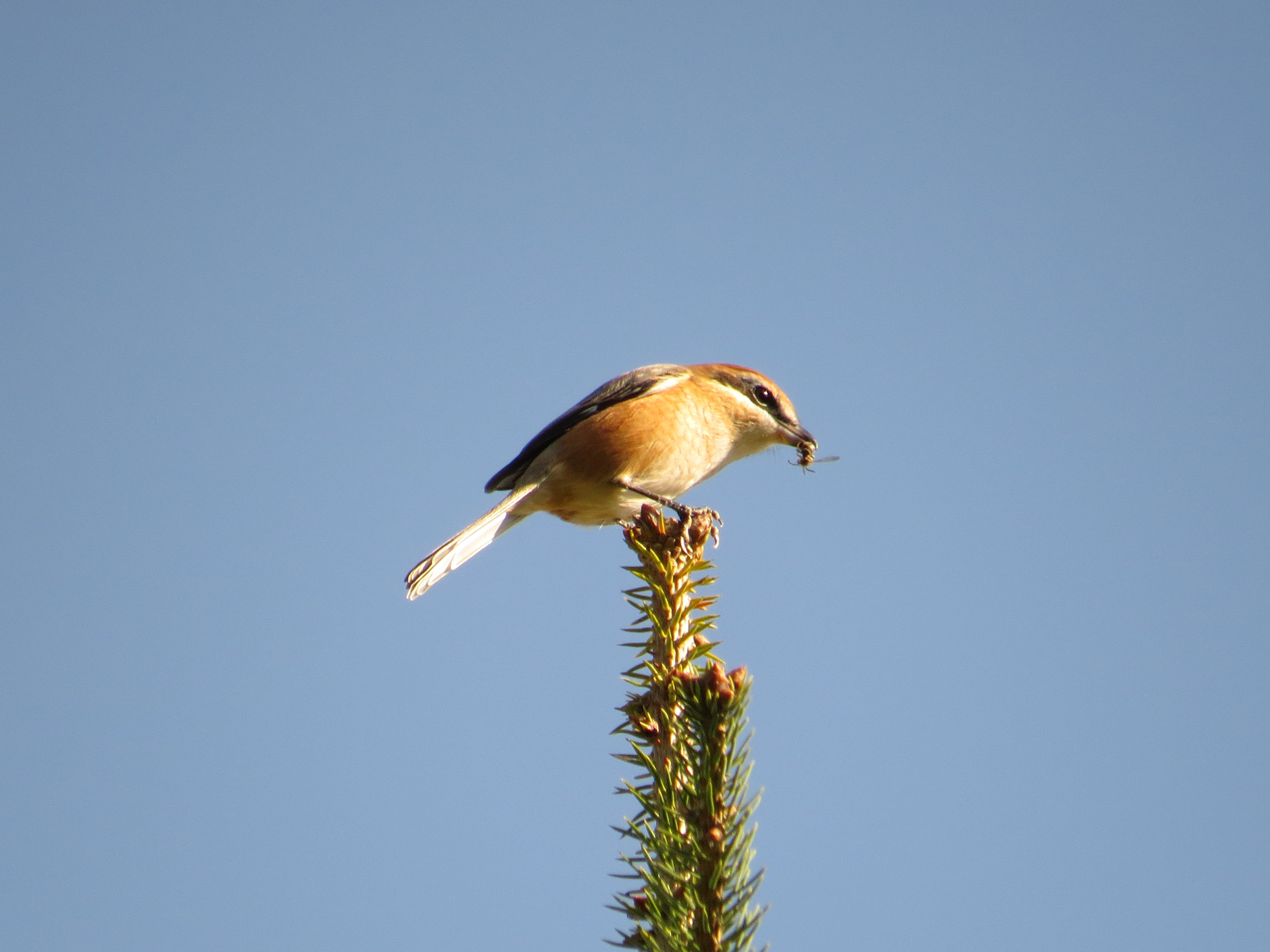 Lanius bucephalus Temminck & Schlegel, 1845, Bull-headed Shrike, catching wasps in flight, Pyeongchang, South Korea, 11 October 2014